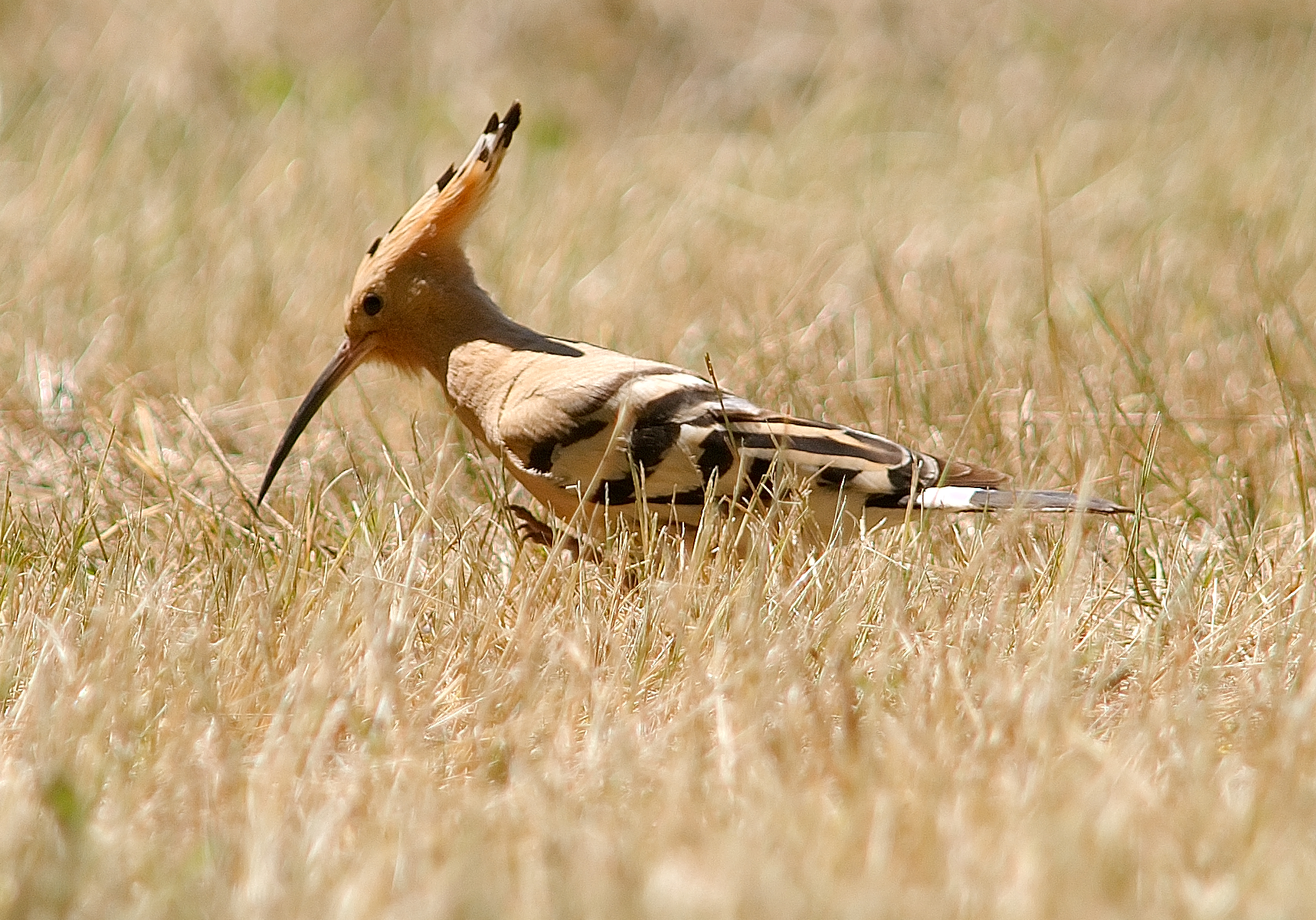 Hoopoe Upupa epops (France)